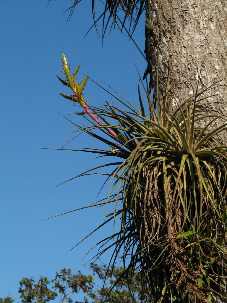 Tillandsia rodrigueziana in habitat in El Salvador, near the border to Guatemala; 1396 m.